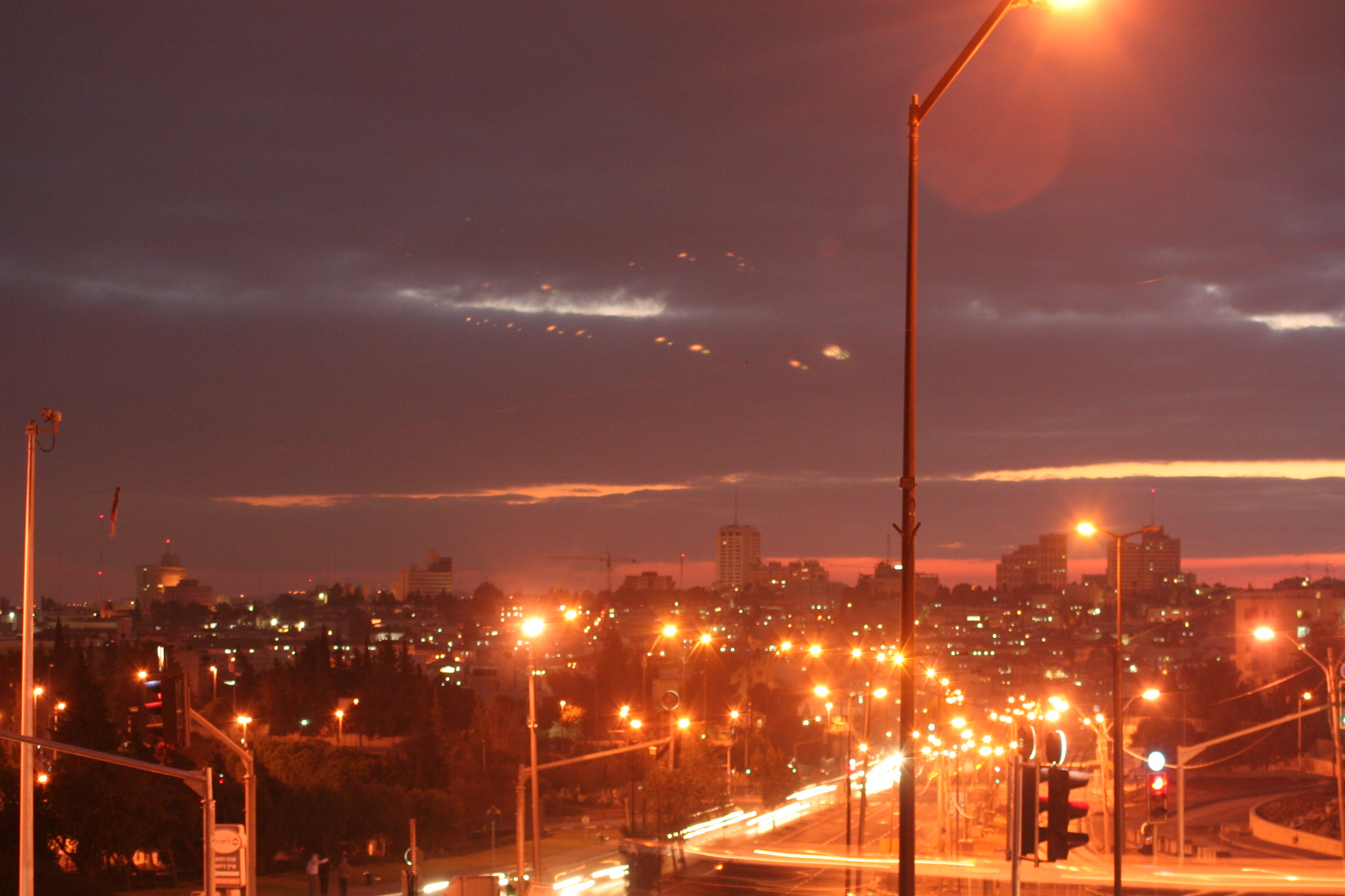 Jerusalem by night